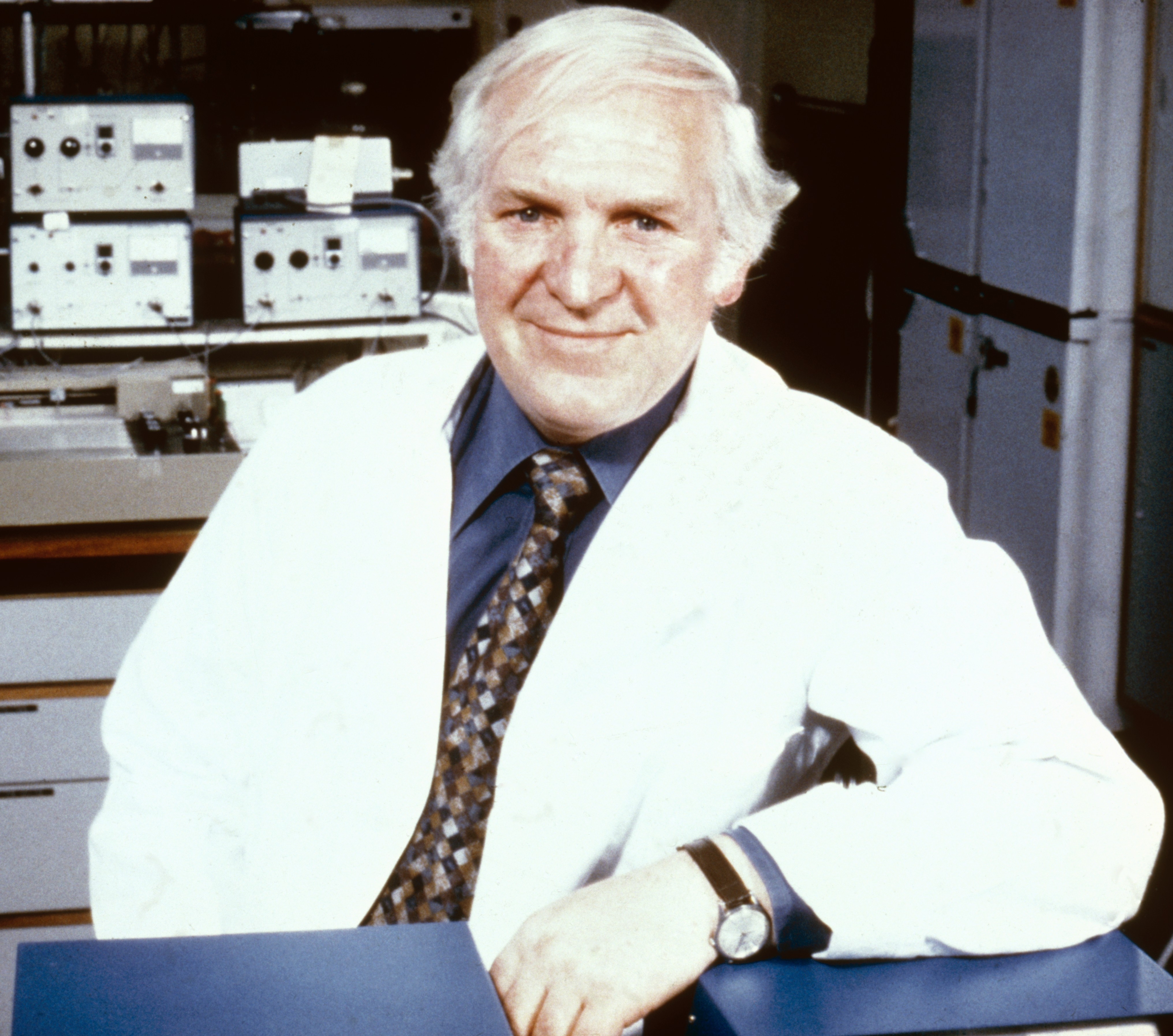 Sir James Black (1924-2010). Between 1978 and 1984, Black was Director of Thereapeutic Research at the Wellcome Research Laboratories.